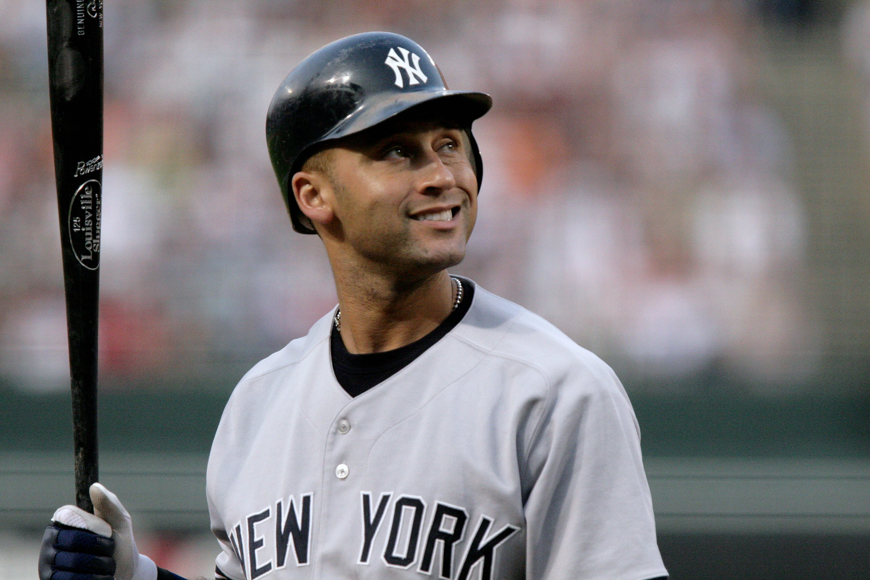 baseball player as shot by photographer Keith Allison